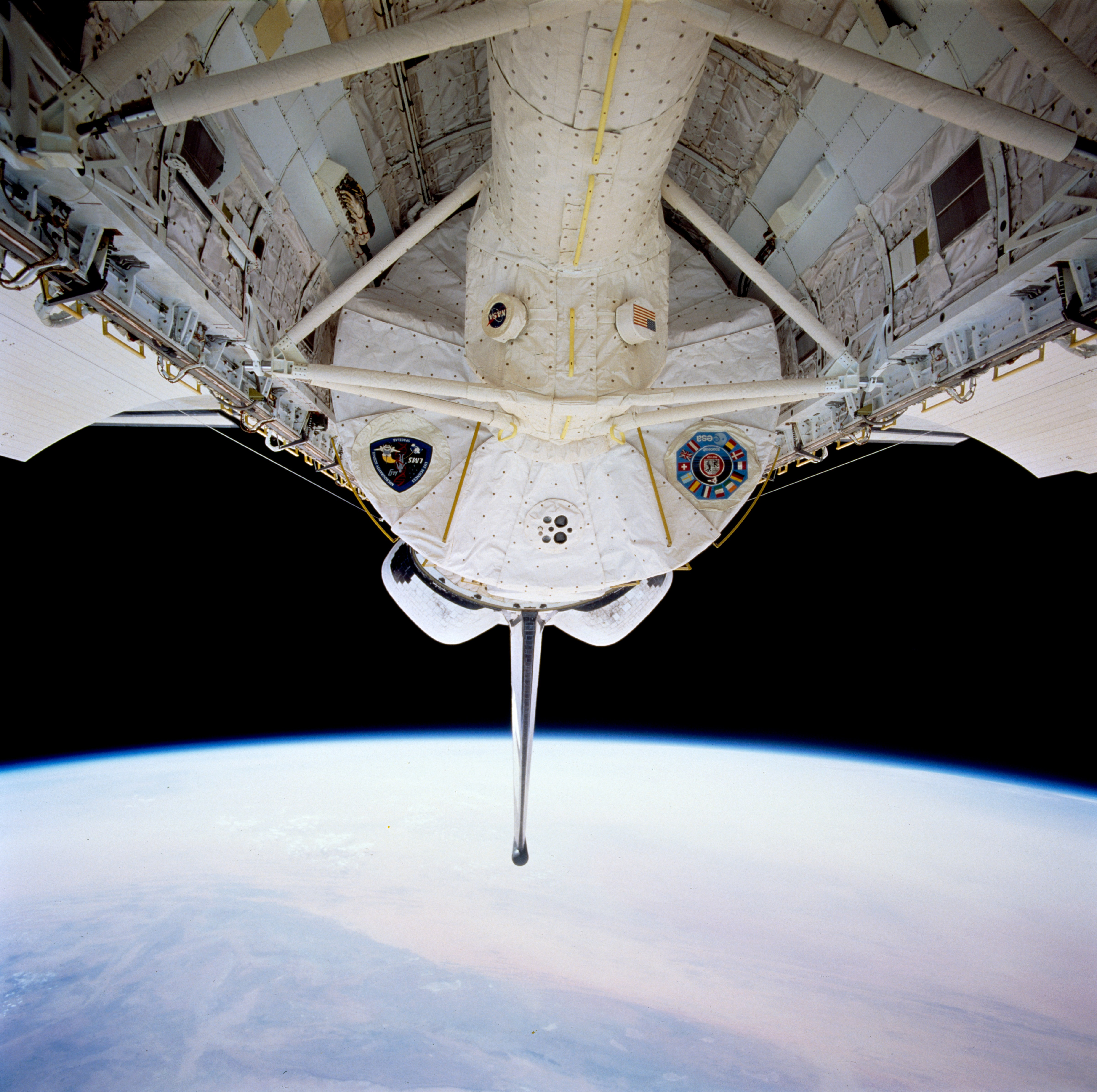 View of payload bay with Spacelab module during STS-78 mission. The orbiter tail points down to the Earth limb.